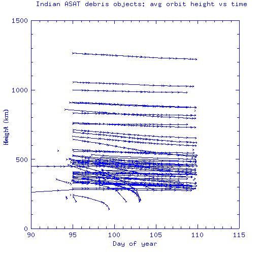 Orbits over time of the debris generated by Indian ASAT test of March 27, 2019, as tracked by the U.S. Air Force